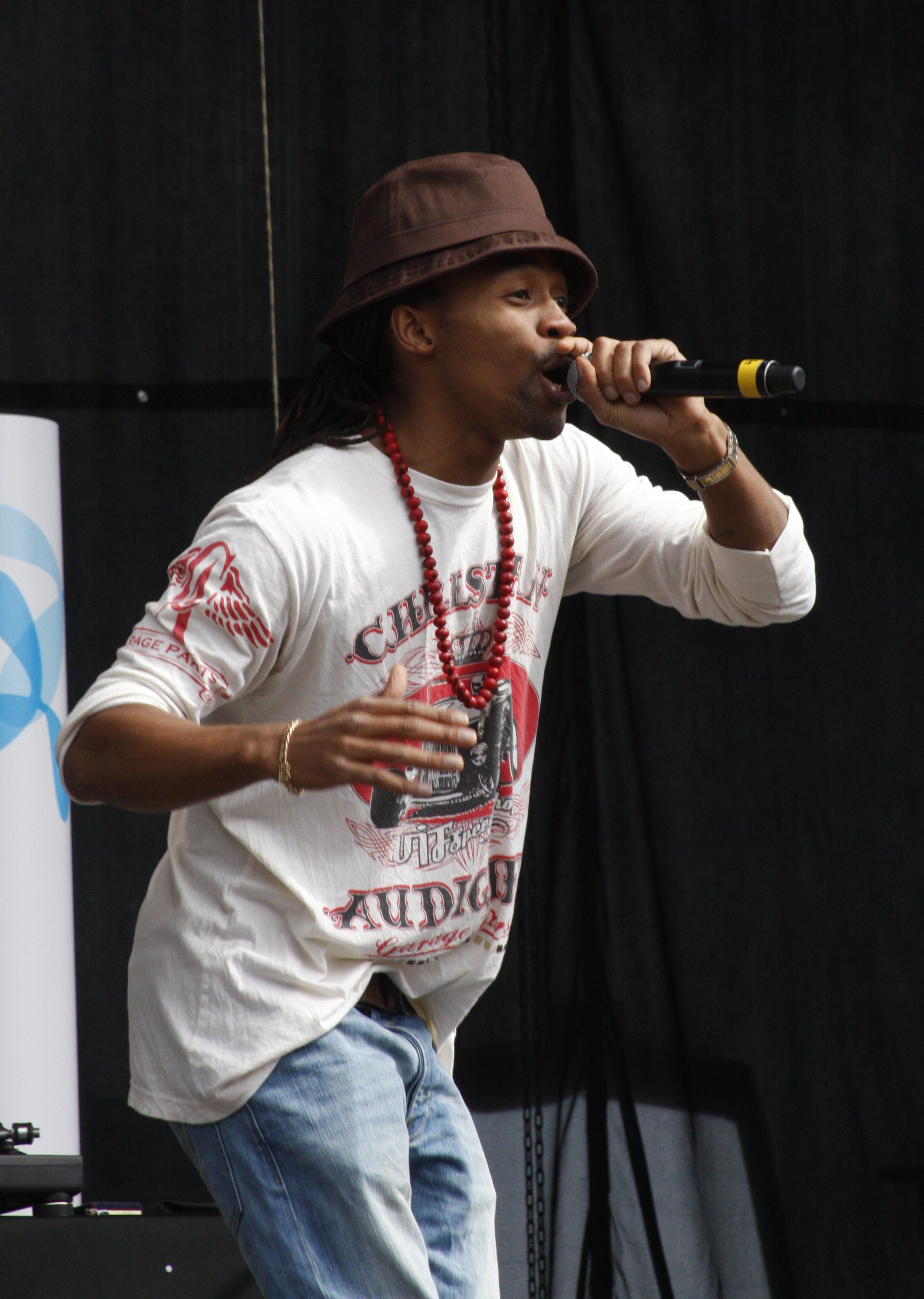 Tshawe Baqwa, rap artist of MadCon, Norway.